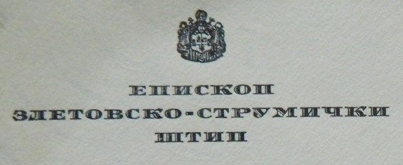 Zletovo-Strumica Bishopric Logo